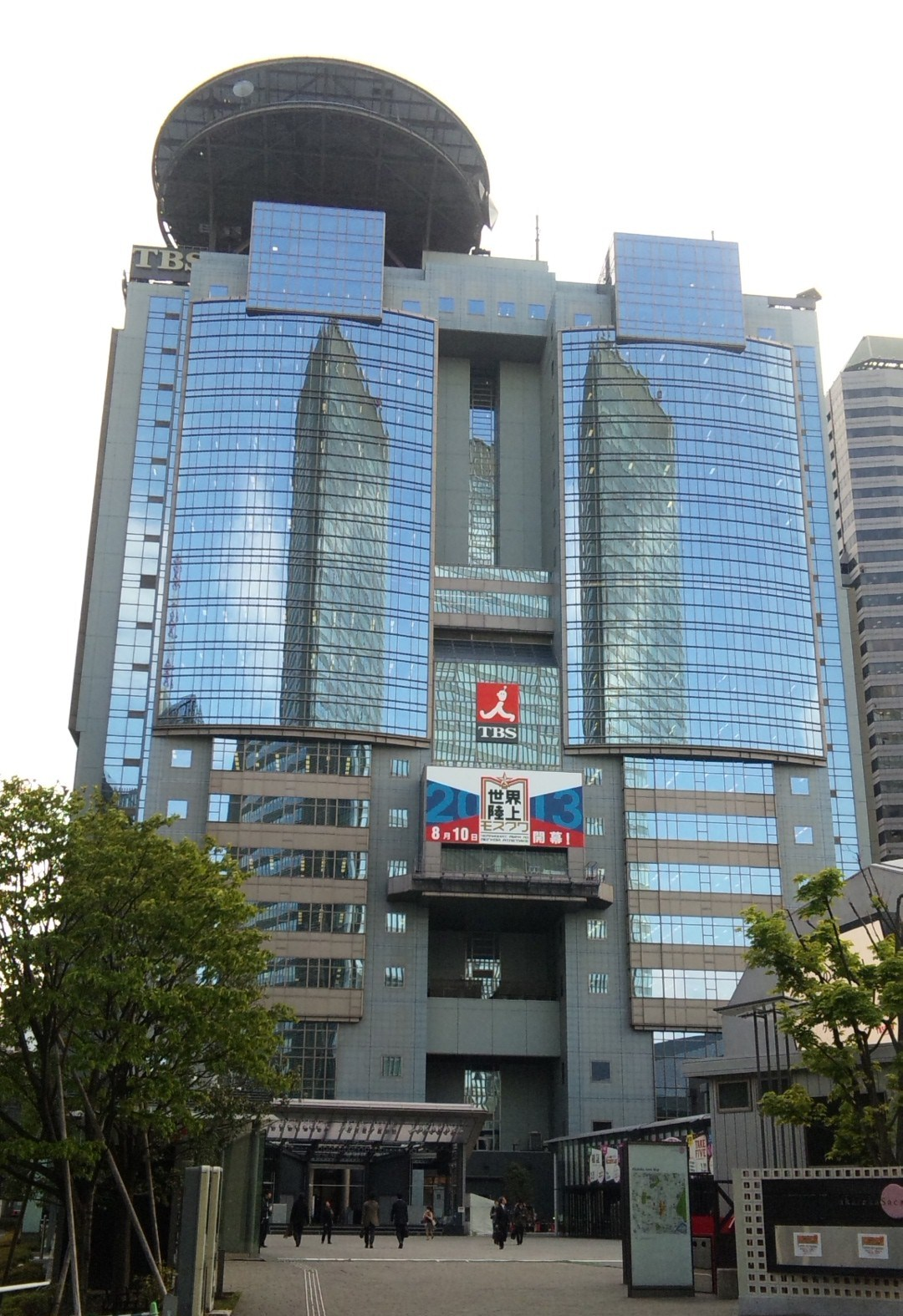 TBS Broadcasting Center in Akasaka Minato-ku, Tokyo. The Tokyo Broadcasting System Holdings, inc. (TBSHD) headquarters. Commonly known as "big hat". In the center is the company's logo and symbol (Jiin) at the time and advertisements for the 14th IAAF World Championships in Athletics (Moscow 2013) broadcasted by TBS TV.